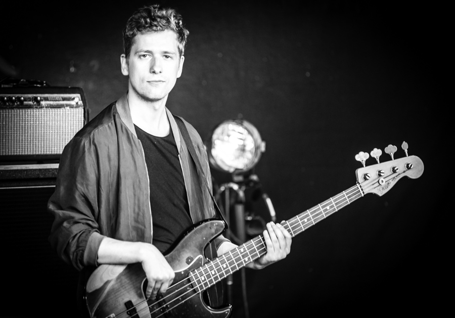 Kristian Jacobsen with Rohey at Christians kjeller. The concert was part of Kongsberg Jazzfestival and took place on 04. July 2018 in Kongsberg. Lineup: Rohey Taalah (vocal) Ivan Blomqvist (keyboard) Kristian Jacobsen (bass guitar) Henrik Lødøen (drums)